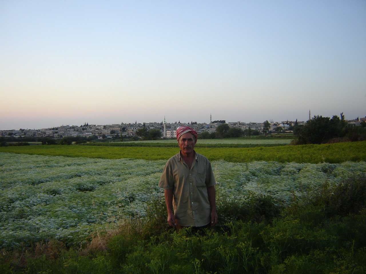 The Village